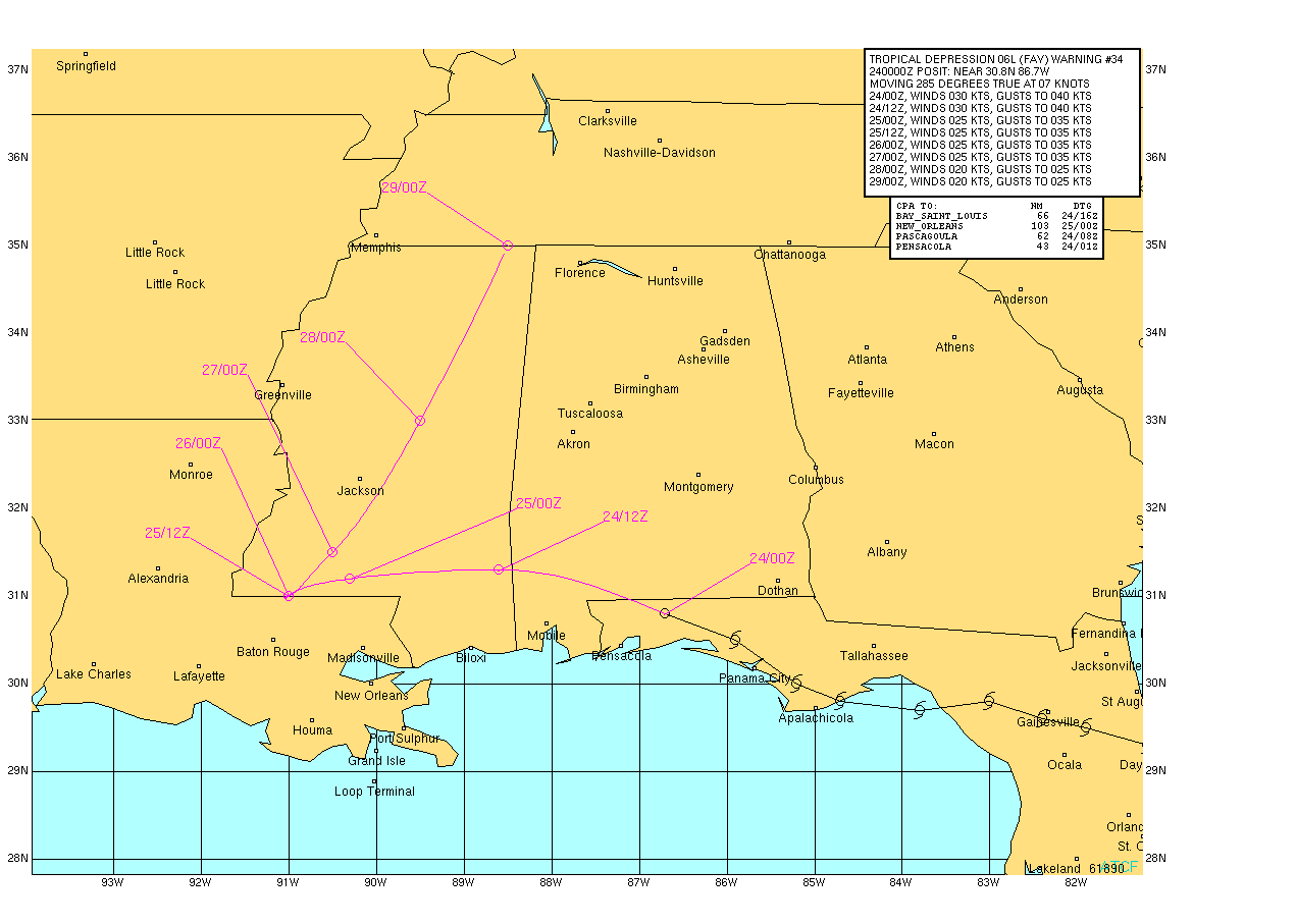 5 day forecast track of Tropical Depression Fay